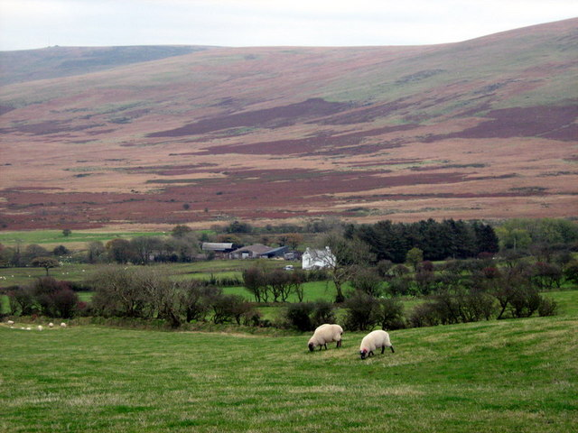 The view east From the road that runs along the valley side below Cnwc yr Hydd there is a breathtaking view of the moorland slopes of the Preseli hills sweeping down towards Brynberian.